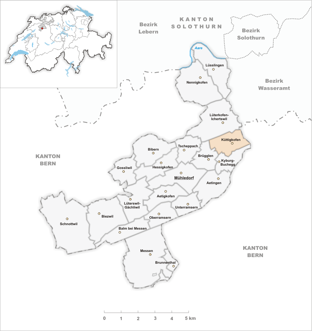 Municipality Küttigkofen